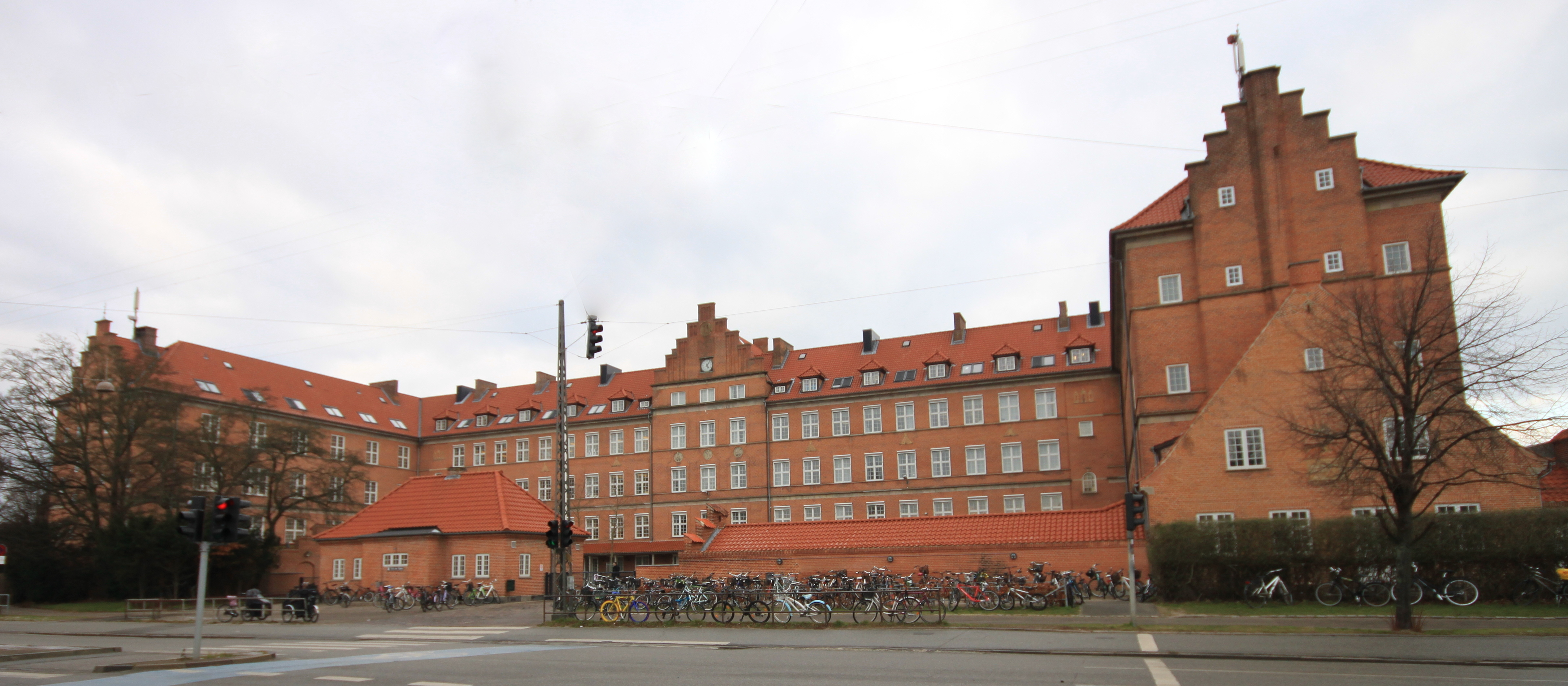 Nyboder Skole, a public school in Copenhagen)